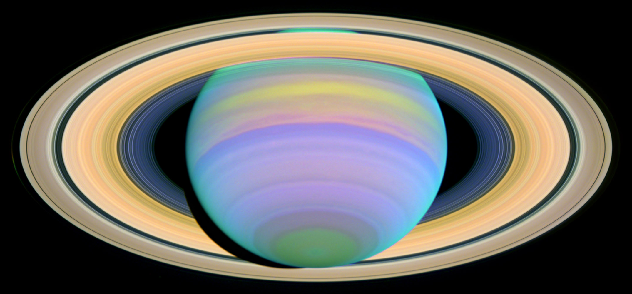 Saturn's Rings in Ultraviolet Light